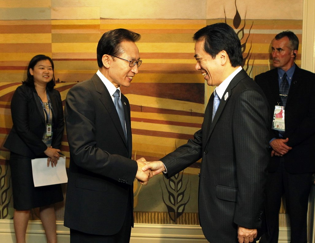 at the occasion of the G-20 Financial Summit meeting in Toronto, Canada